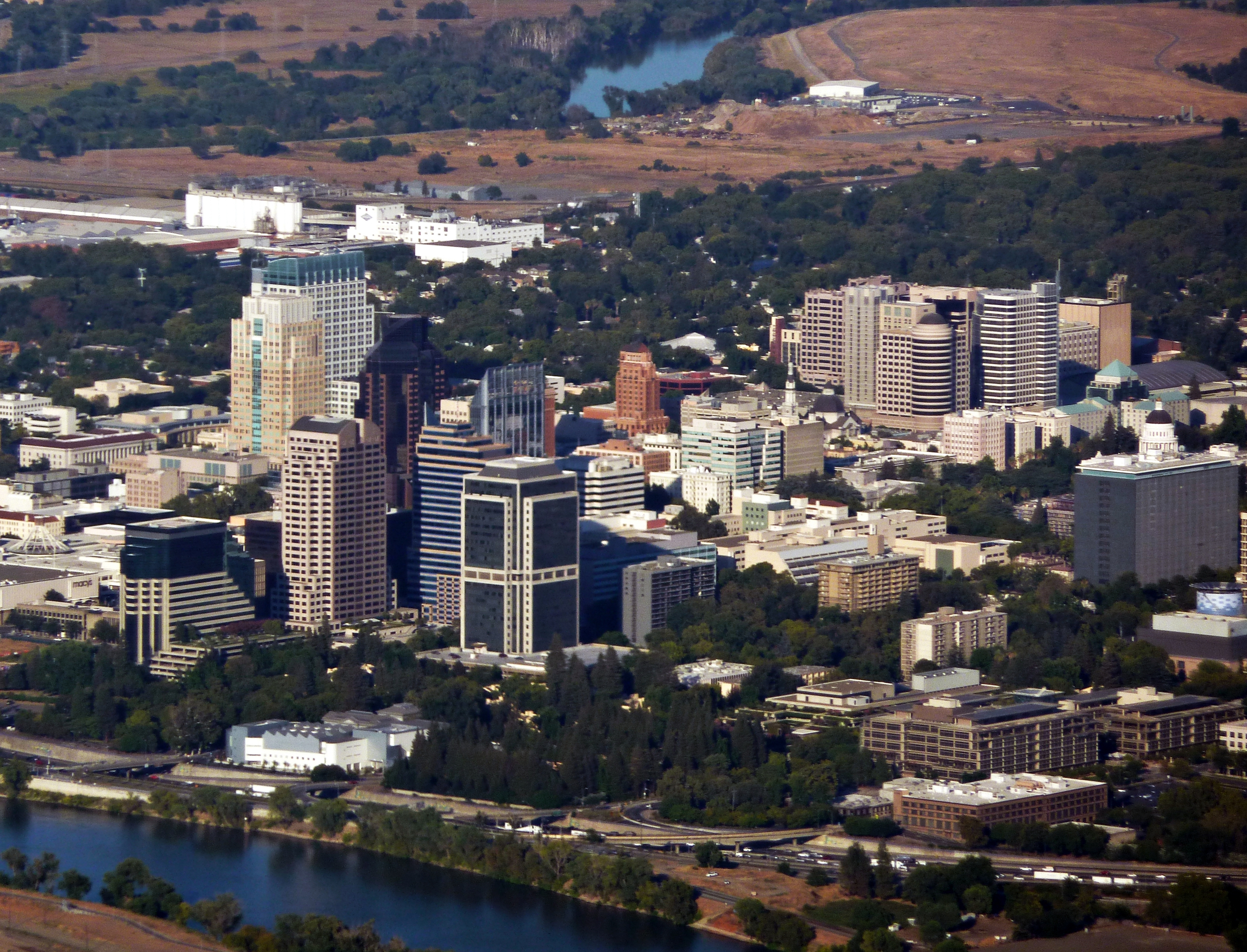 Aerial view of Sacramento, California.